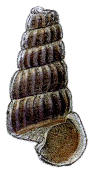 Darwing of apertural view of the shell of Cerithidea decollata